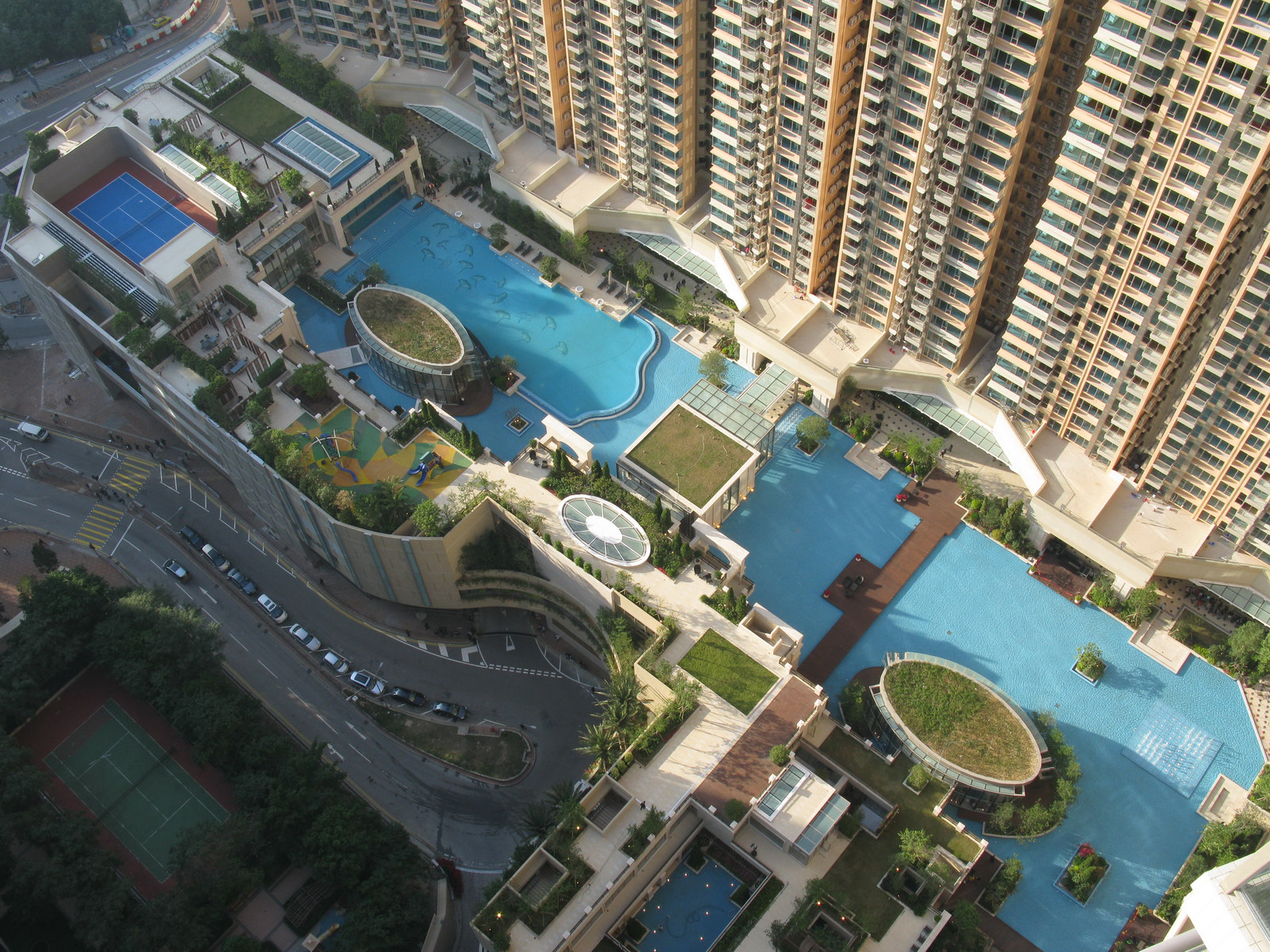 Aerial view of Palace by the Sea Club House, Lake Silver